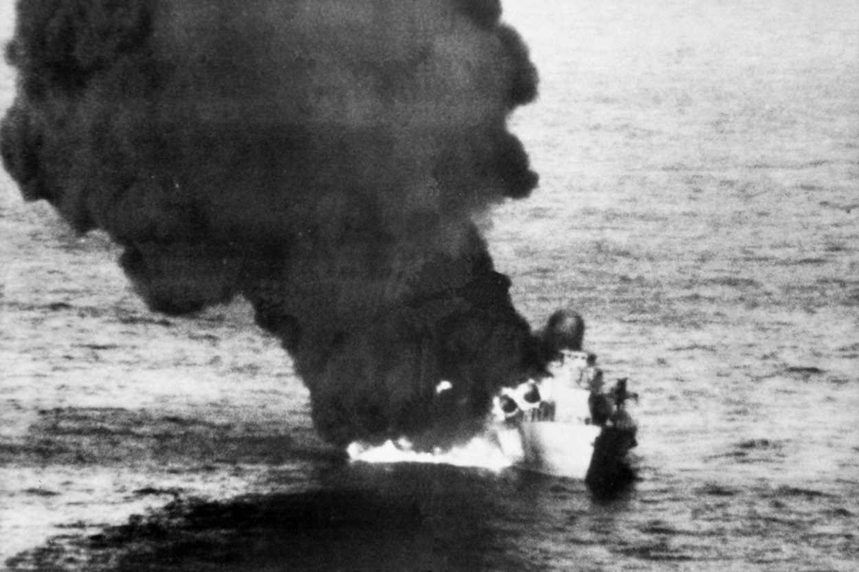 A Libyan Nanuchka-class corvette burning in the Gulf of Sidra, 24 March 1986. U.S. Navy Grumman A-6E Intruder aircraft from attack squadrons VA-55 and VA-85 attacked two Nanuchka-class corvettes with Rockeye cluster bombs and AGM-84 Harpoon missiles. One was sunk, the other was towed back to port. A-6Es from VA-34 destroyed a Libyan La Combattante IIa-class fast attack craft.